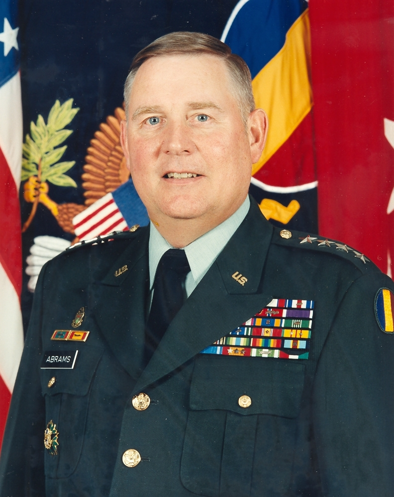 GEN John Abrams